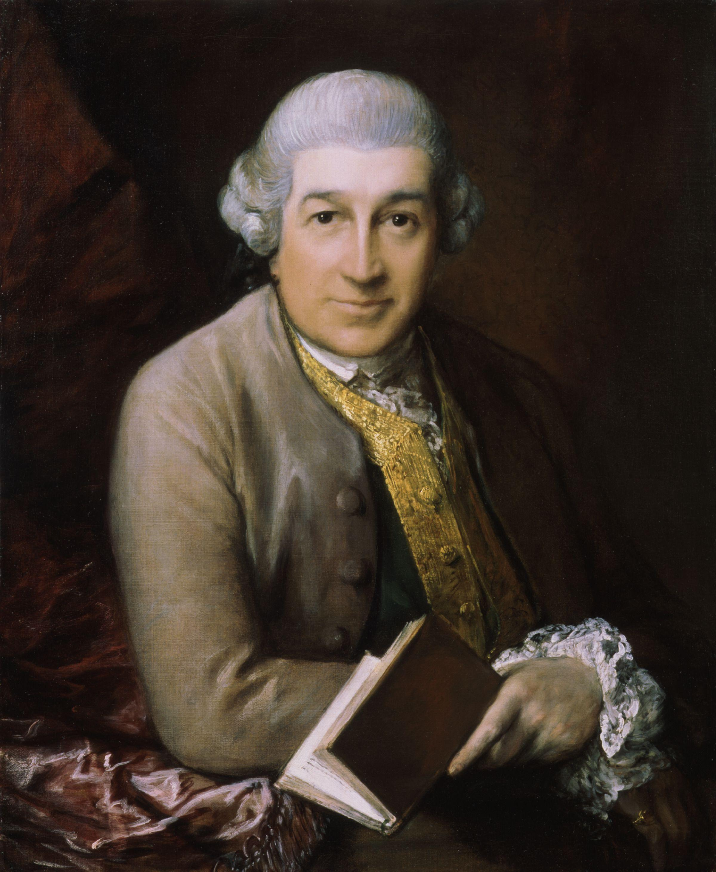 Portrait of David Garrick. All images in this batch have been confirmed as author died before 1939 according to the official death date listed by the NPG.